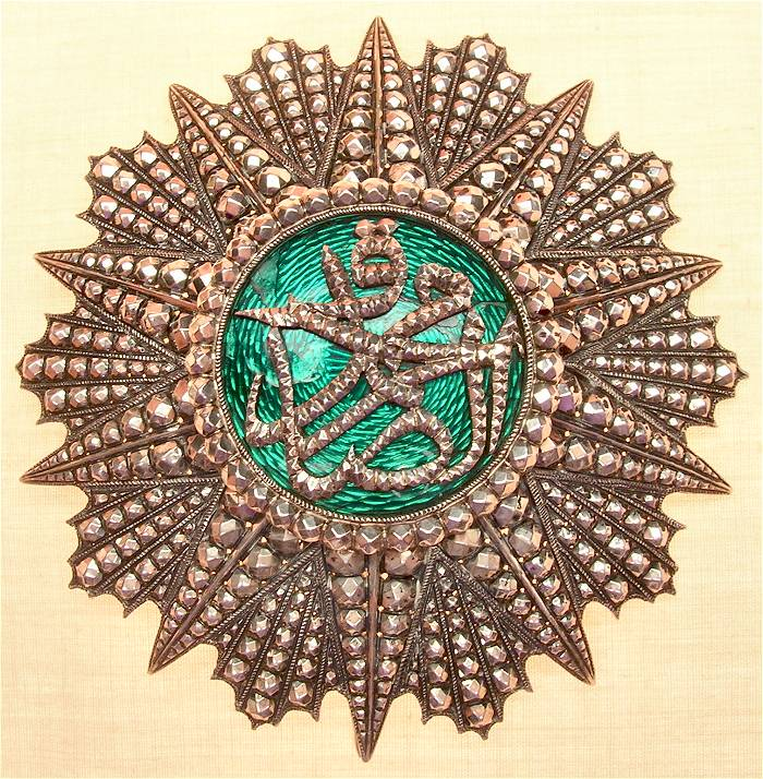 Nichan Iftikhar, grand cross, Muhammad III as-Sadiq Bey (1859 - 1882), French jeweler manufactured.